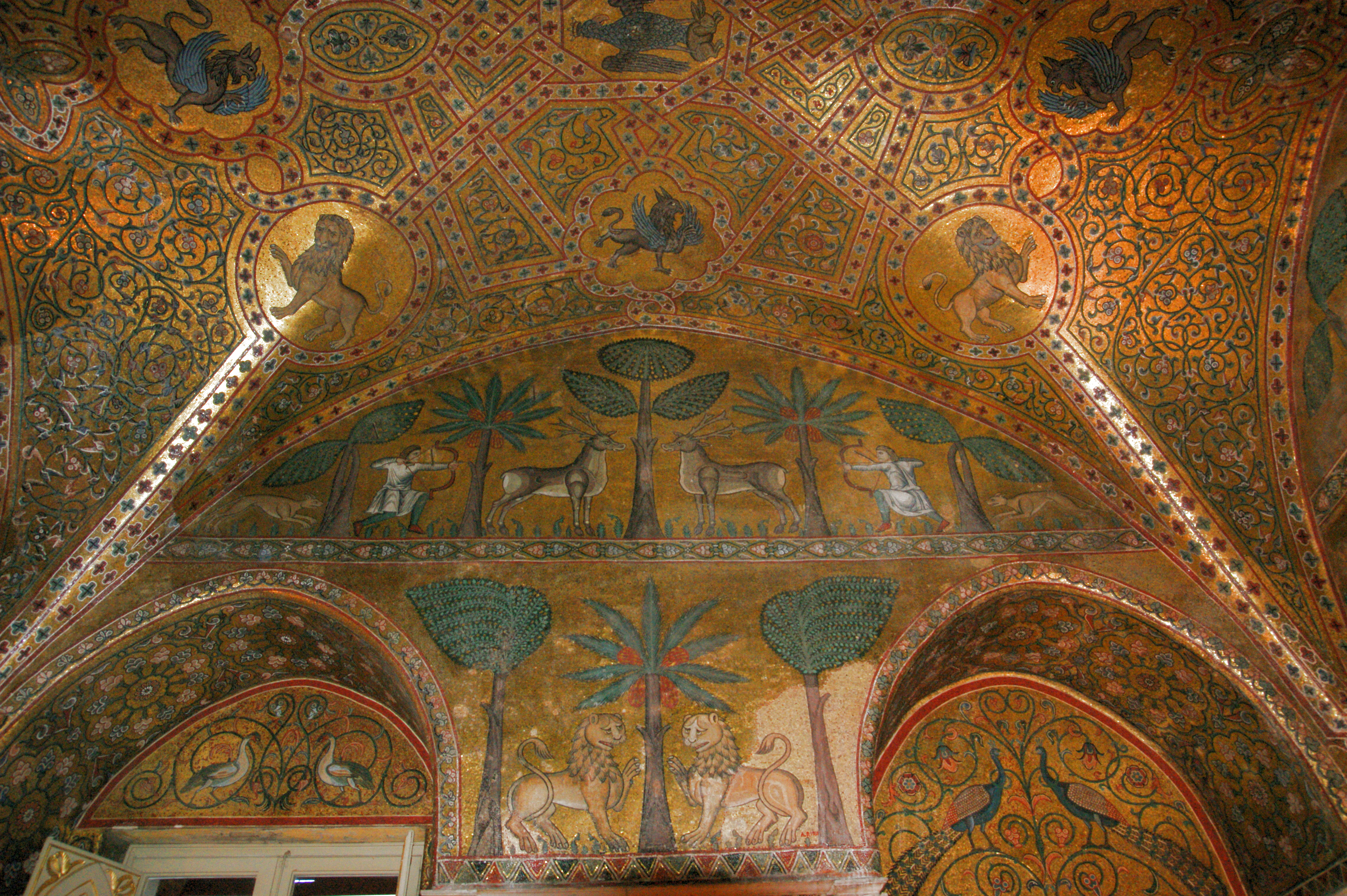 Description 2009-03-22 03-29 Sizilien 150 Palermo, Palazzo RealeDate 23 March 2009, 15:05Source 2009-03-22 03-29 Sizilien 150 Palermo, Palazzo RealeAuthor Allie_Caulfield from Germany Licensing